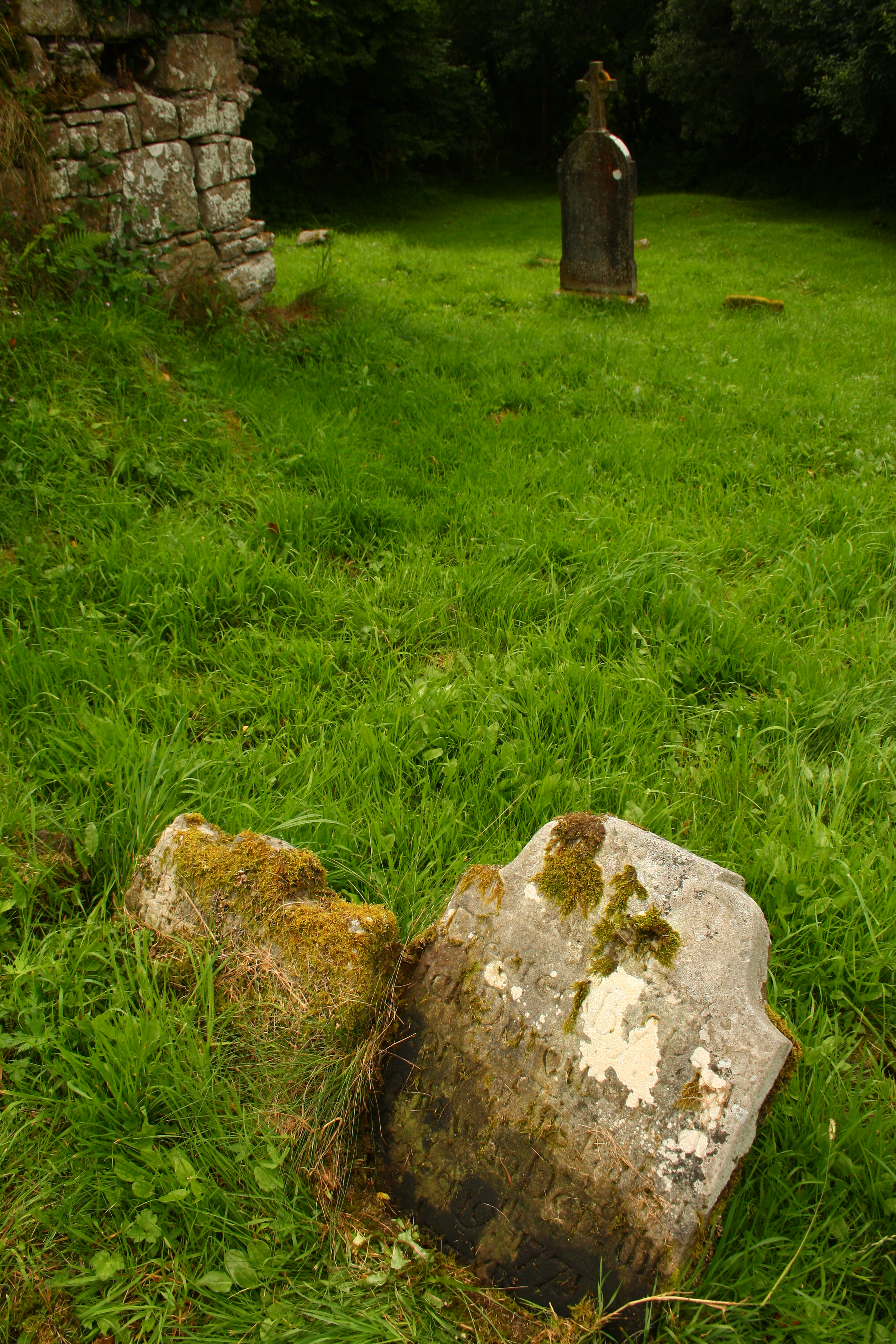 Gravestone